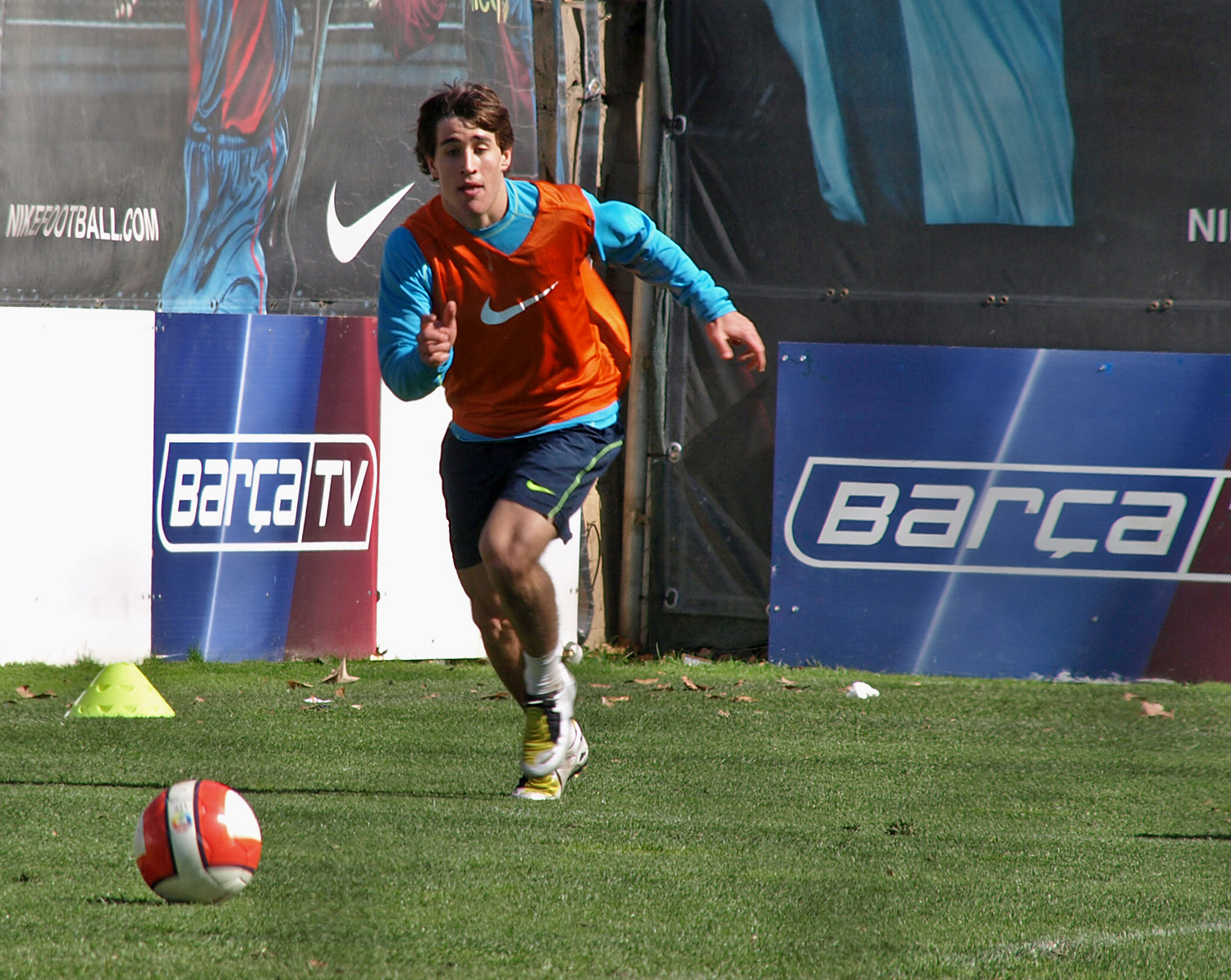 Bojan Krkić (pronounced [ˈbɔjan 'kr.kiʨ]) (Serbian Cyrillic: Бојан Кркић) (born August 28, 1990 in Linyola, Spain), is a 17-year-old Spanish footballer who plays for FC Barcelona.